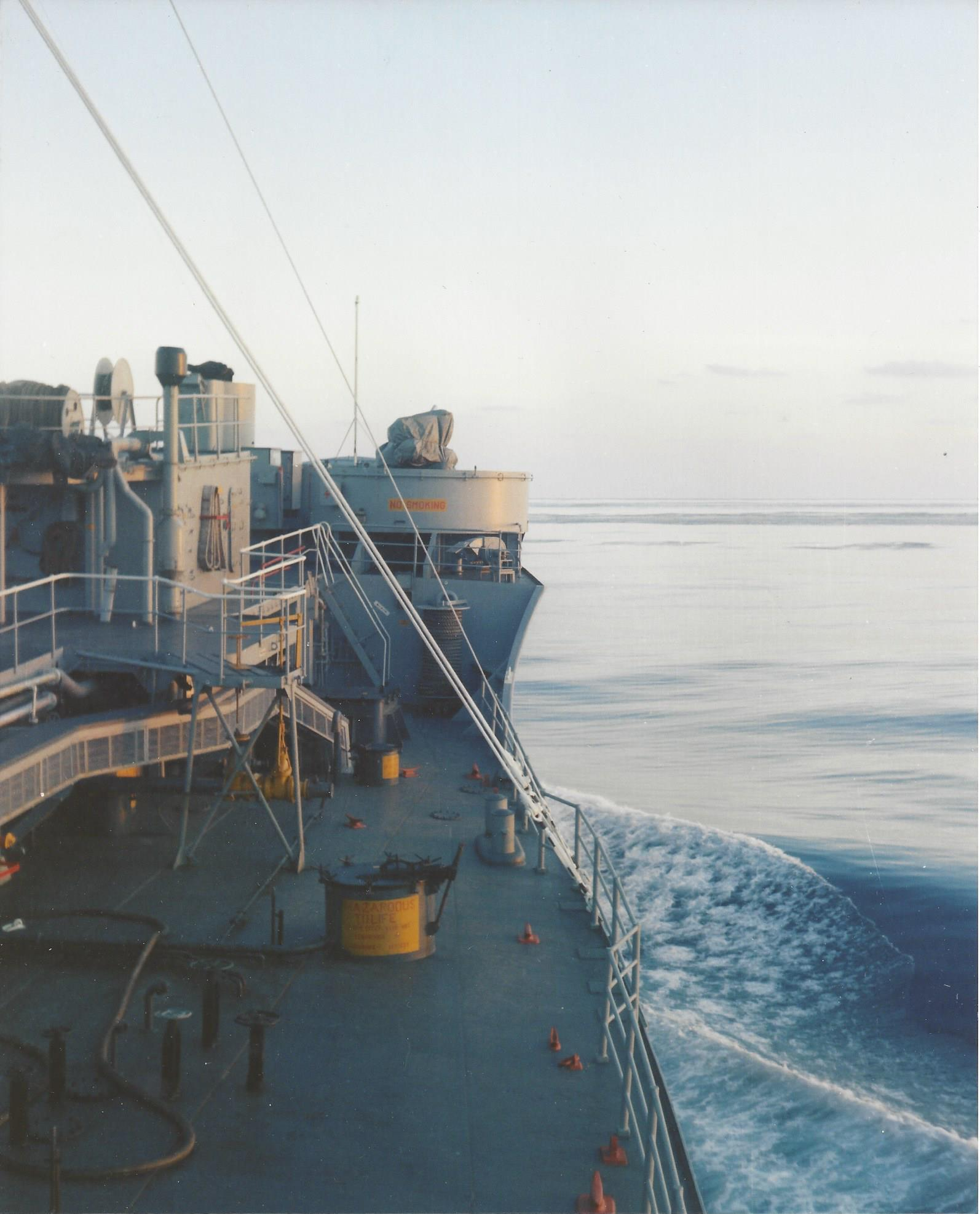 View over the bow of the U.S. Navy fleet oiler USS Marias (AO-57), on 13 January 1967, while she was underway approximately 160 km (100 mi) off the coast of Florida (USA).